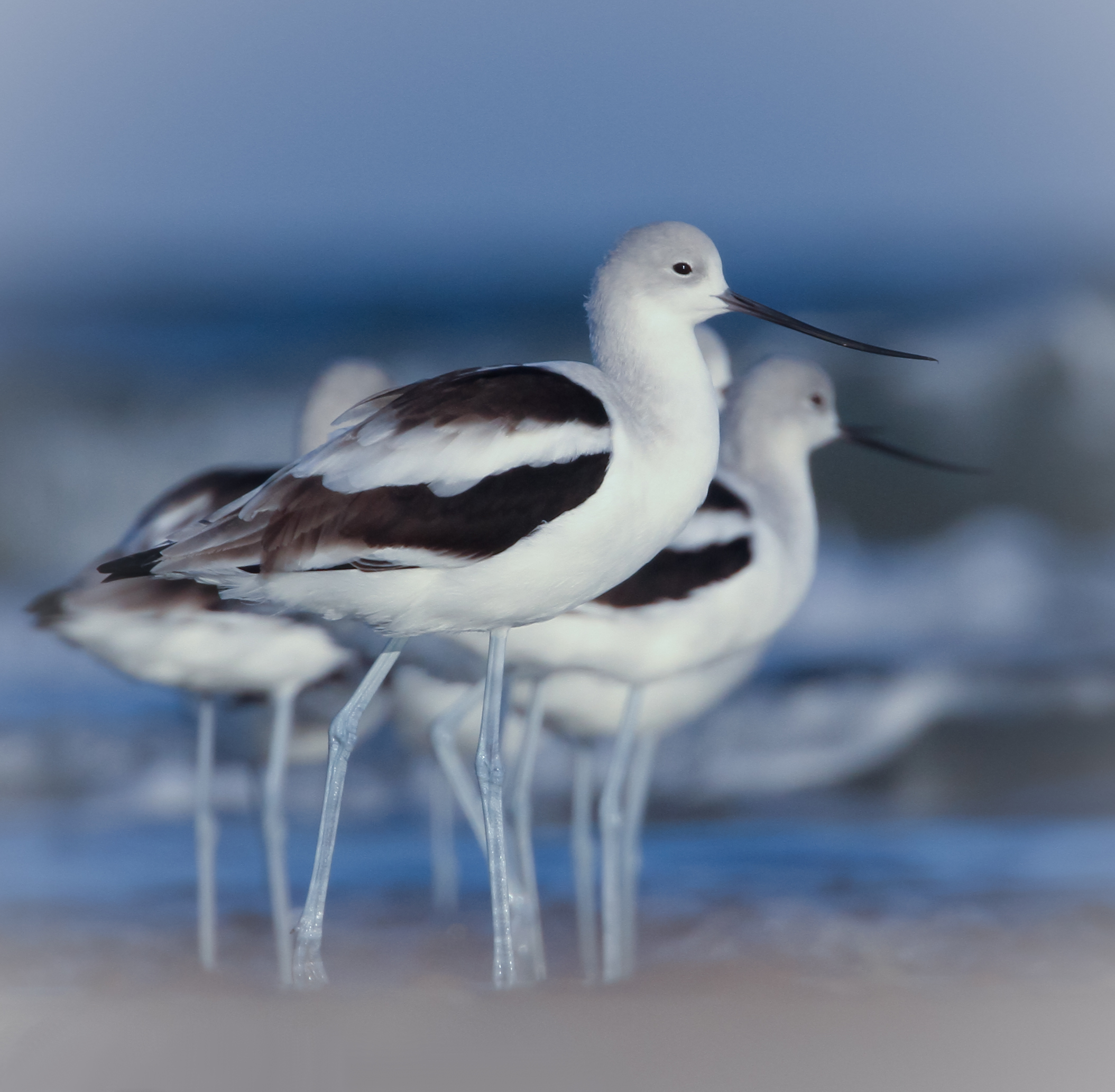 American Avocet Winter Colors in Quintana, TX